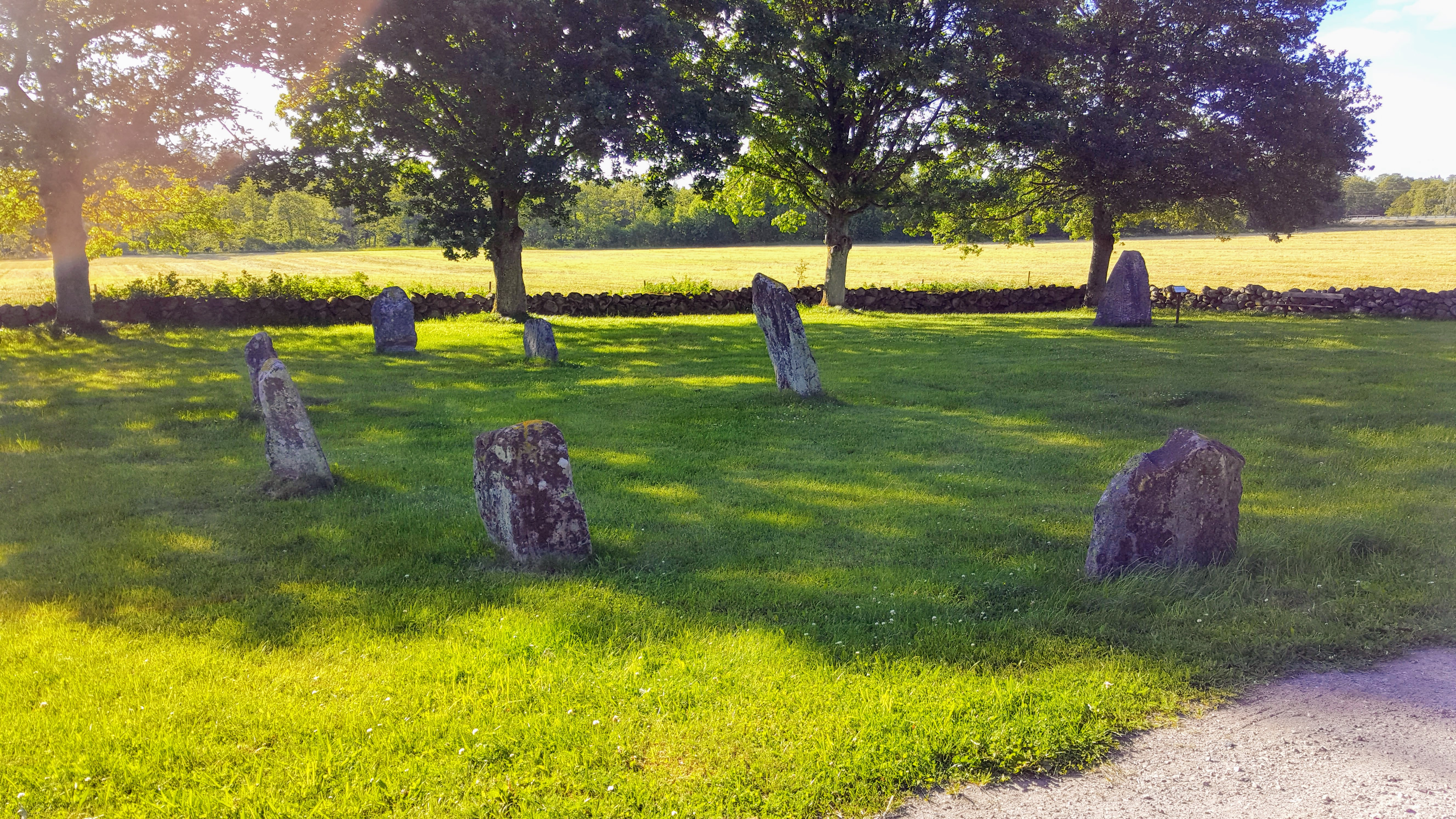 Picture of Replösa Ship Setting (Ljungby 29:1), with the Replösa Stone (Ljungby 28:1, Sm 35) in the background, just outside Ljungby, Sweden.